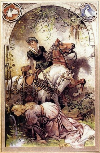 Illustration to a fairy tale "King_Thrushbeard"